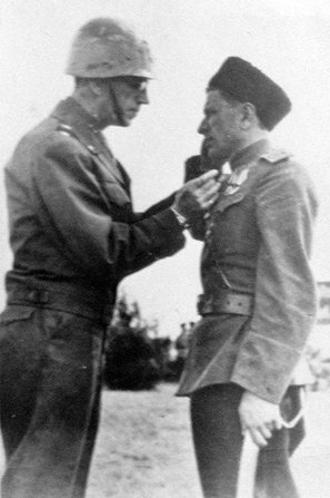 General Bolling awards Movlid Visaitov with US Legion of Honor. Taken 25 April 1945 at the Allied meeting on the Elbe.